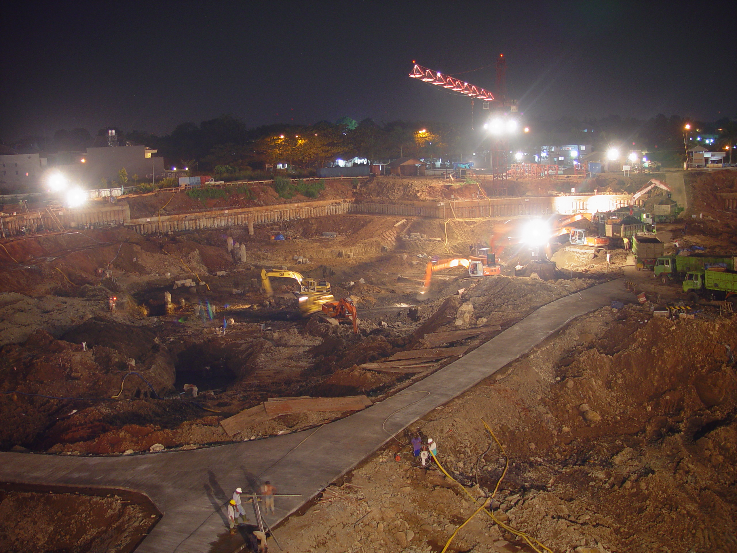 Mall cultural in Jakarta, Indonesia.